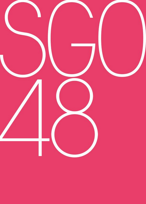 SGO48 Logo